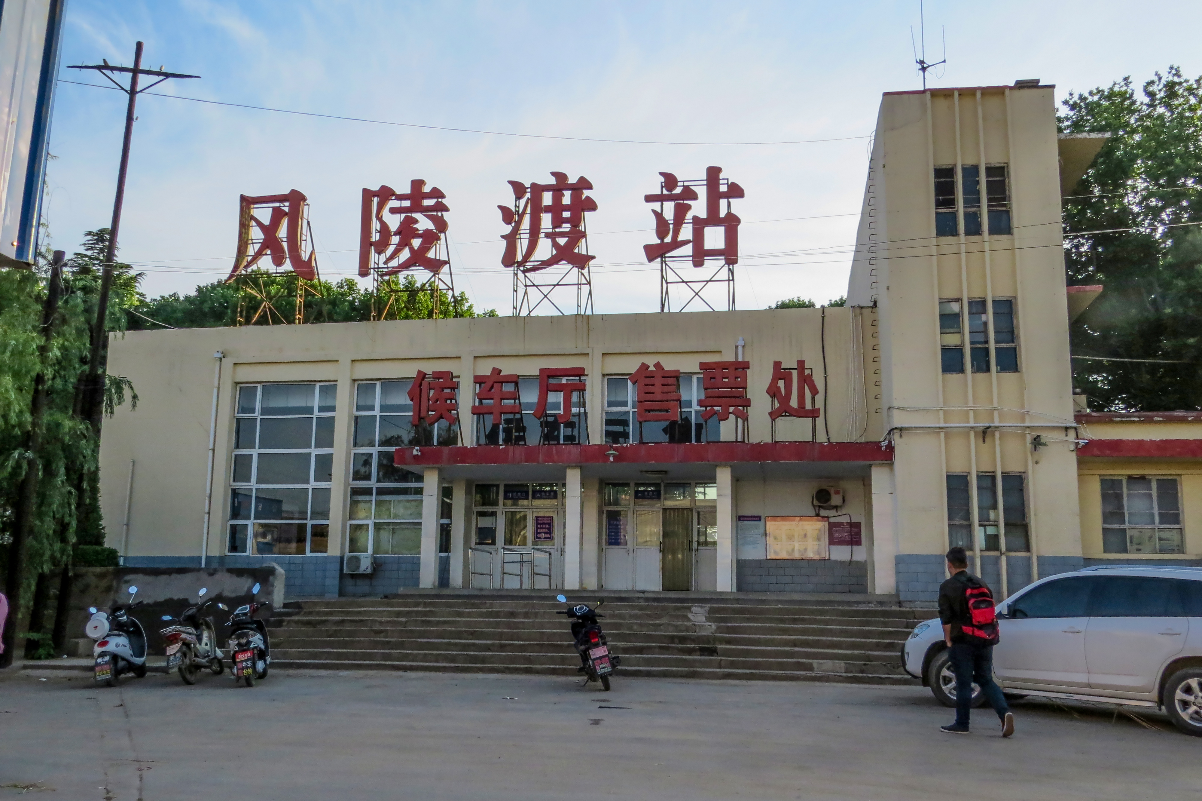 Fenglingdu is a legendary place where Guo Xiang first met Yang Guo in Jin Yong's The Return of the Condor Heroes. Also features a turn of the Yellow River and the border of three provinces.